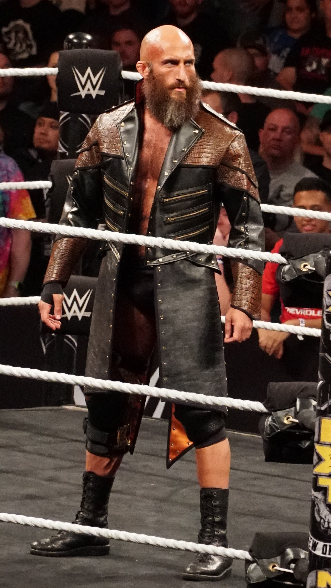 Tommaso Ciampa in the ring at NXT TakeOver New Orleans.